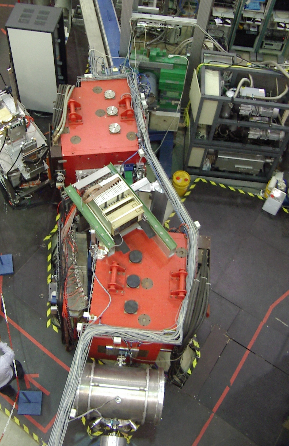 Die Photonenmarkierungsanlage am CBELSA in Bonn The photon tagging system at the CBELSA in Bonn